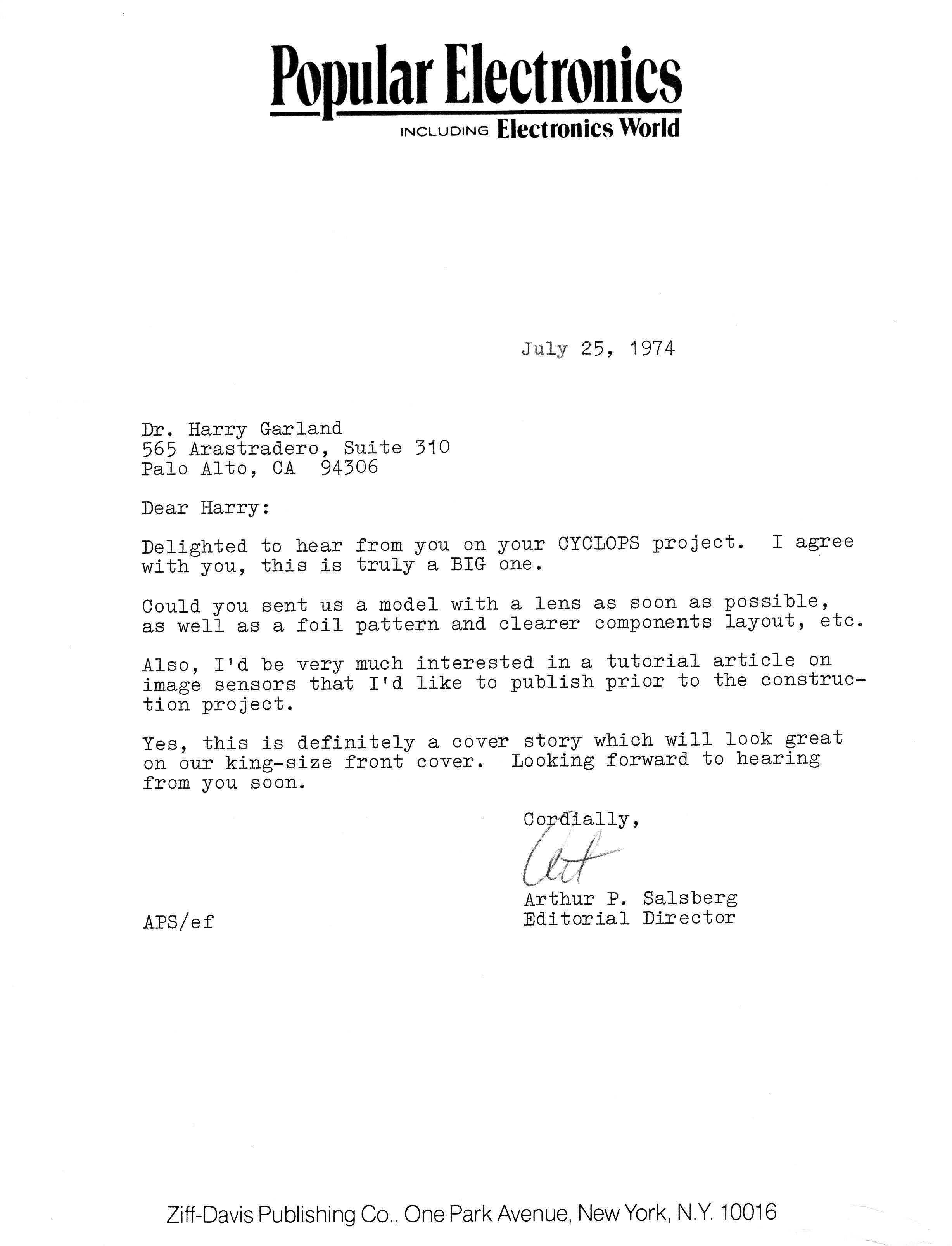 Letter to Harry Garland from Art Salsberg (Editorial Director of Popular Electronics) accepting the Cyclops Camera for publication and requesting a tutorial article on image sensors. The tutorial article appeared in the January 1975 issue, and the Cyclops Camera appeared as a cover story in February 1975. The Cyclops was the world's first all-digital camera with a solid-state area image sensor.